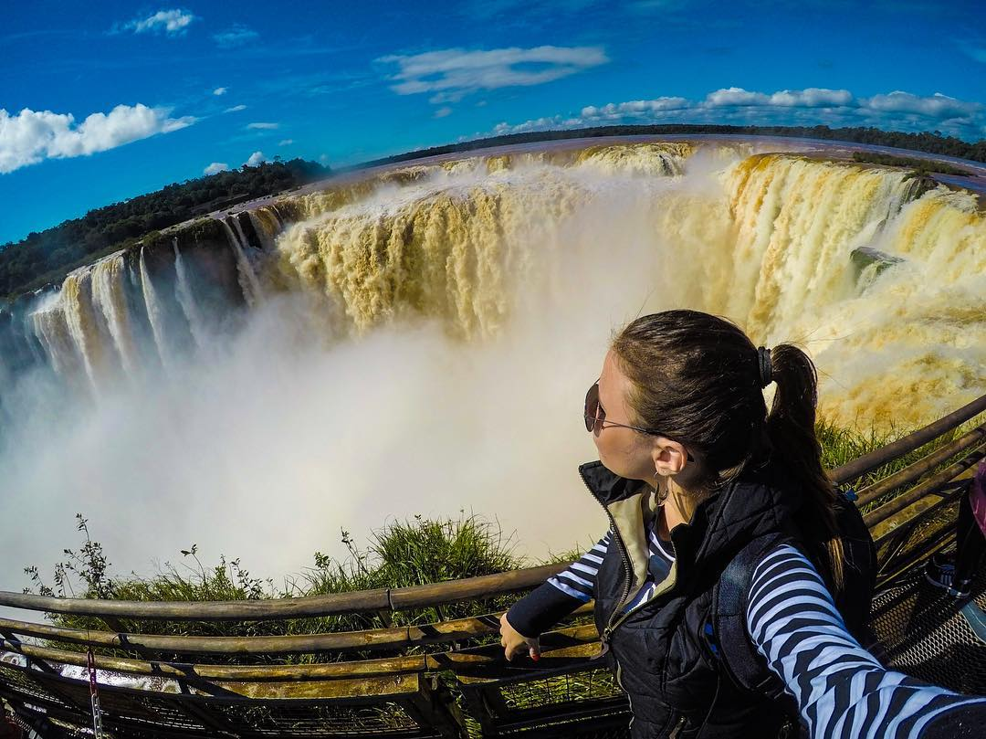 Iguazú Falls in Misiones, Argentina. It is one of the main tourist destinations of Latin America and the world.